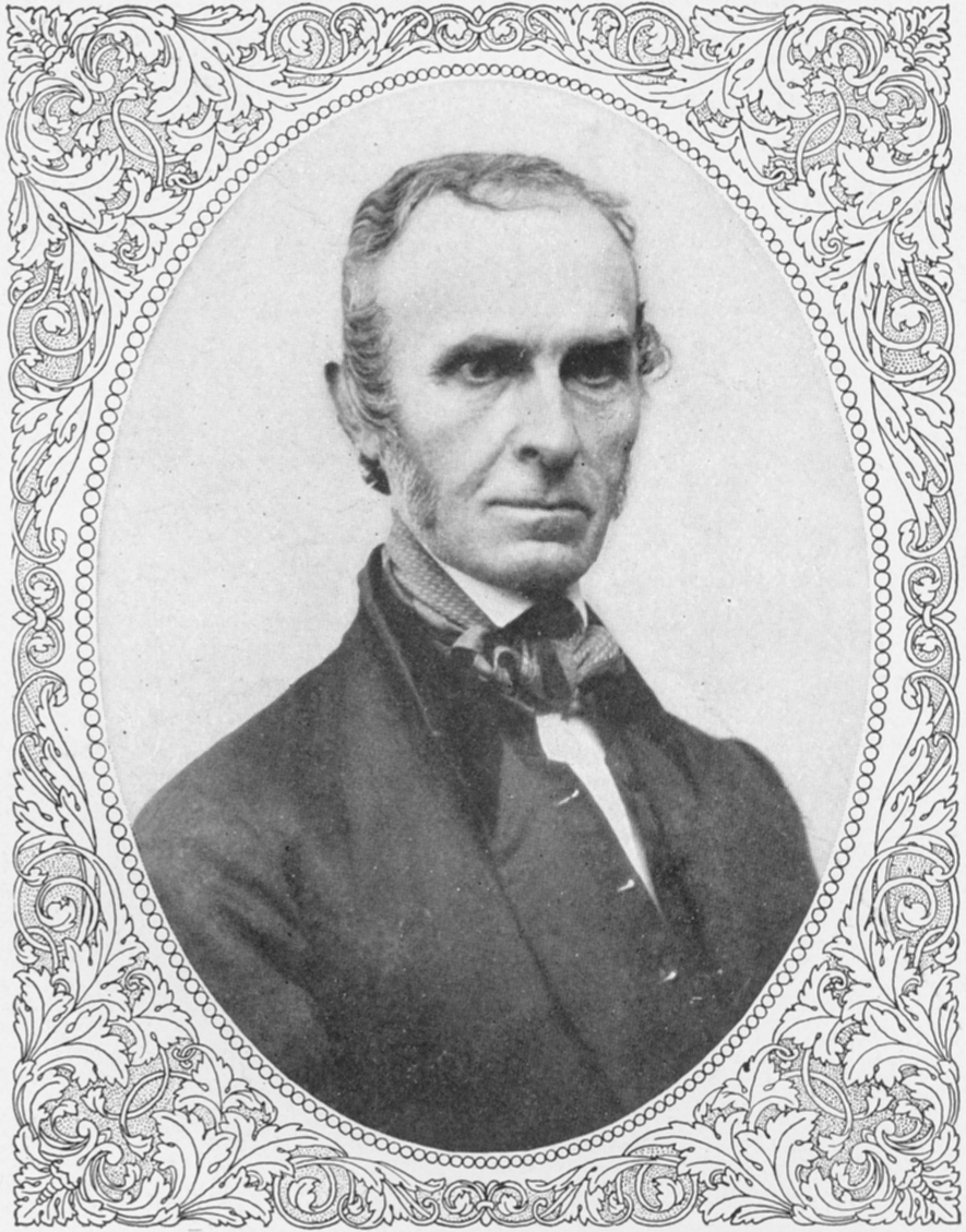 Black-and-white bust portrait of John Greenleaf Whittier in 1859 in an oval frame.